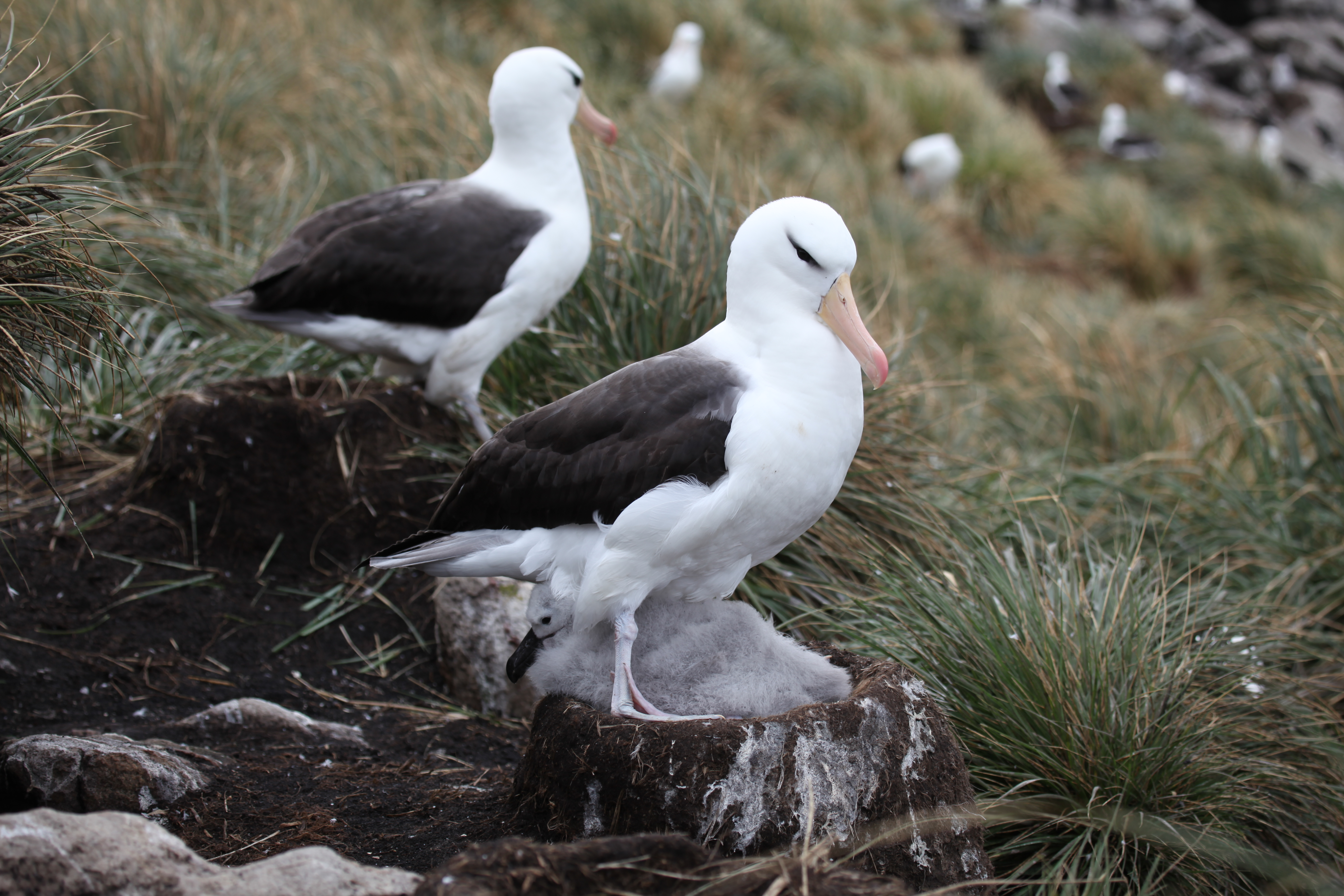 On West Point Island in the Falkland Islands.